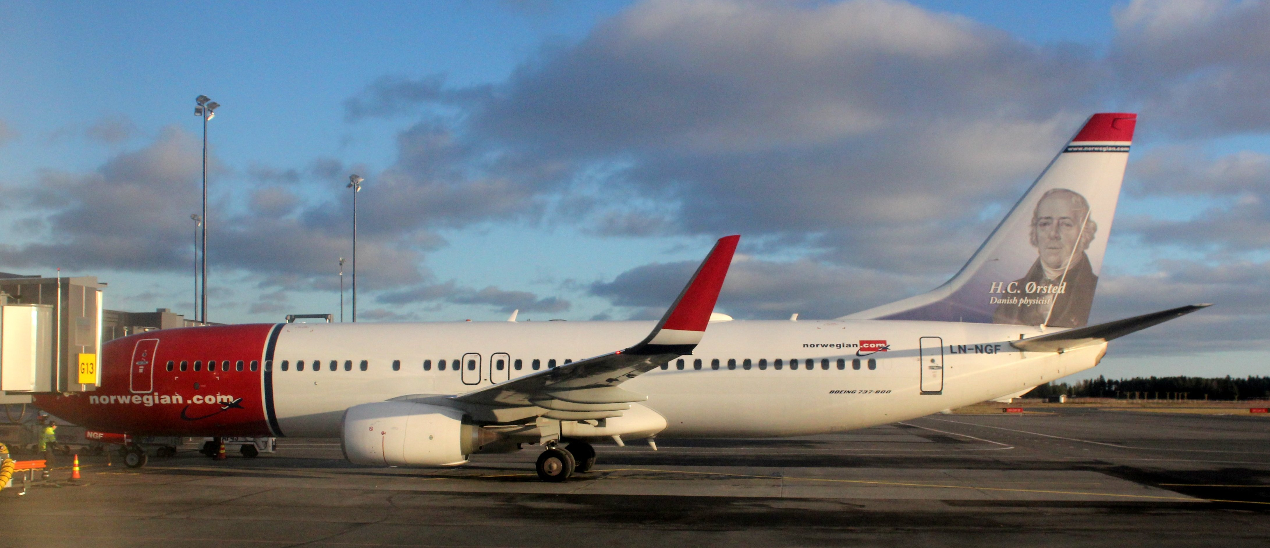 Norwegian Air Shuttle Boeing 737-8JP aircraft LN-NGF at Oulu Airport.